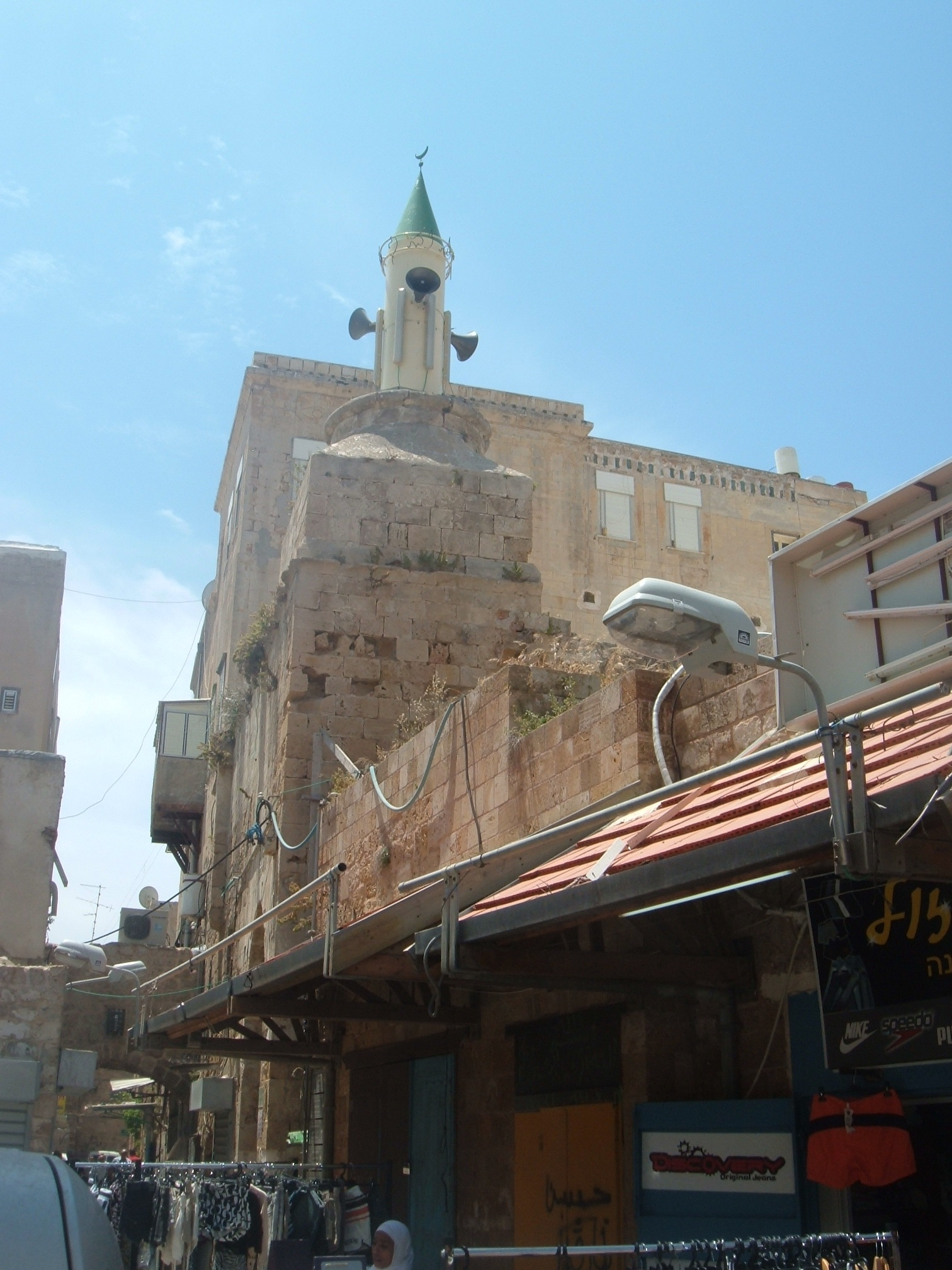 al moaleq mosque, acre מסגד אל מועלק, עכו